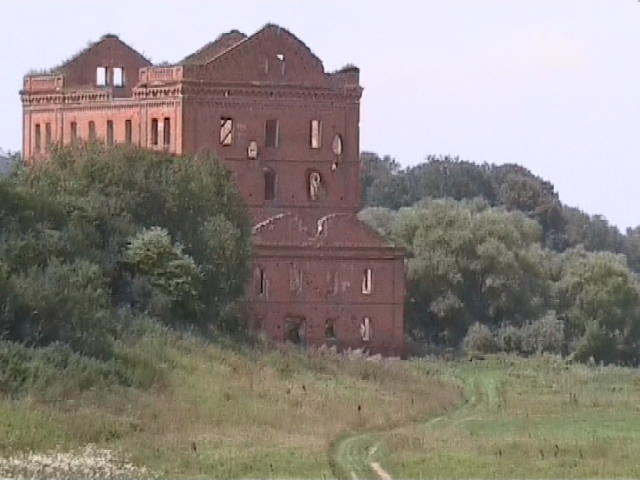 an abandoned water mill on the Protva river